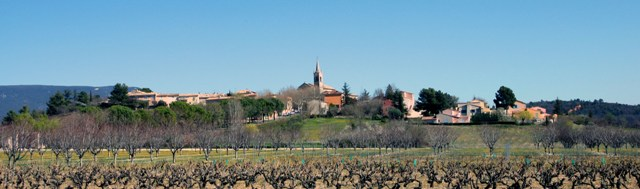 the village of Villars, France